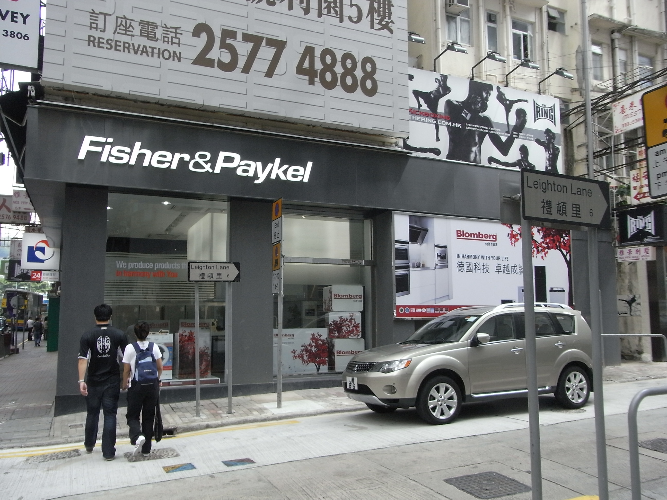 銅鑼灣禮頓道 禮頓里